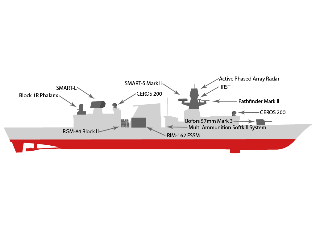 Halifax class FELEX on Illustrator